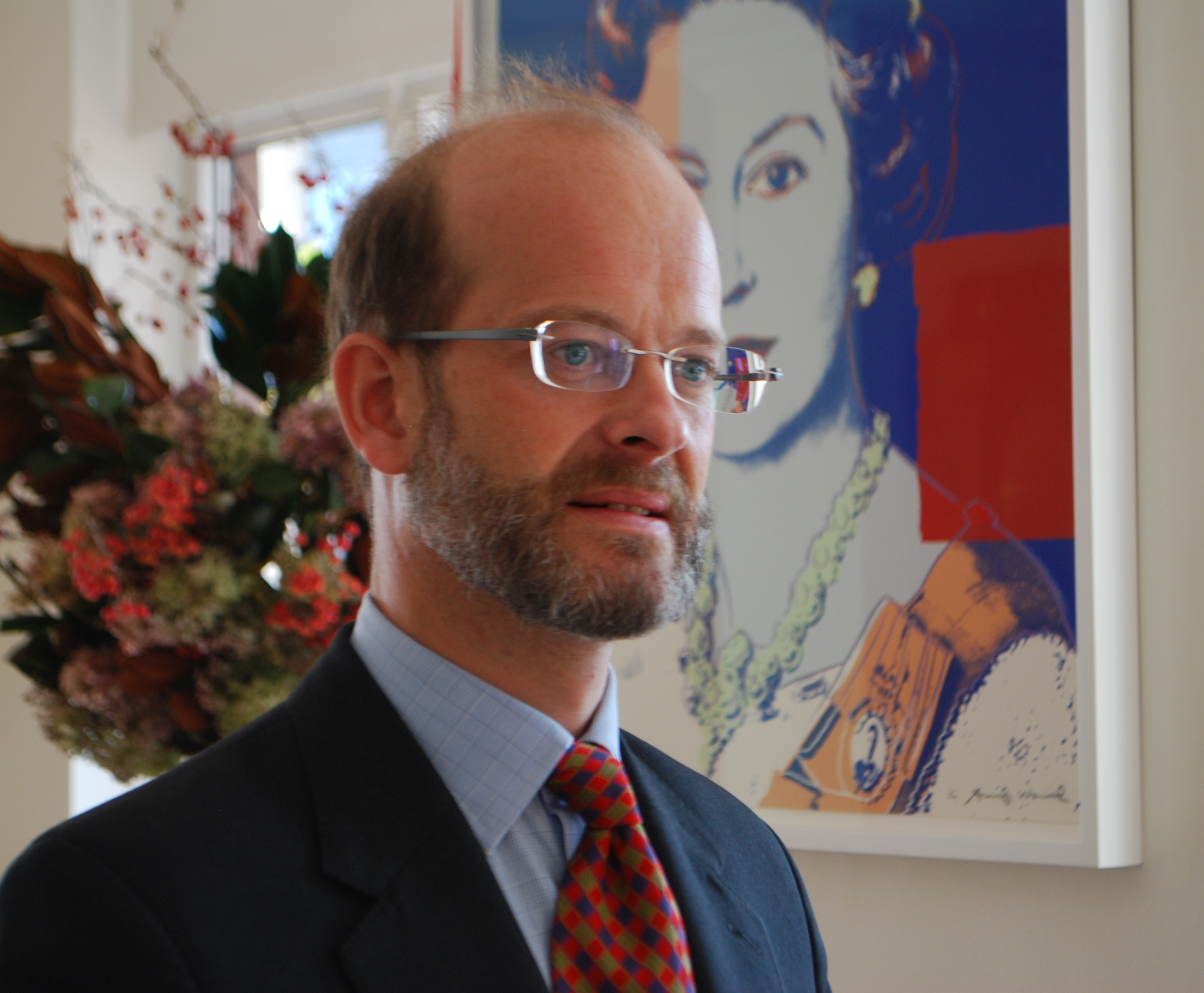 Lord Nicholas Windsor 2013